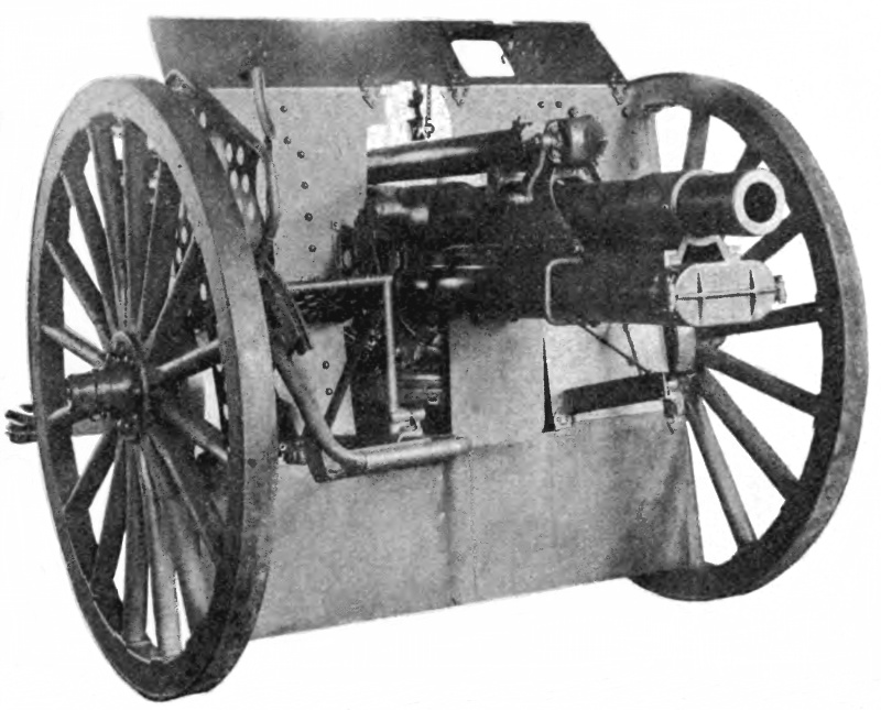 Photograph from front of US 75 mm Field Gun, Model of 1916.